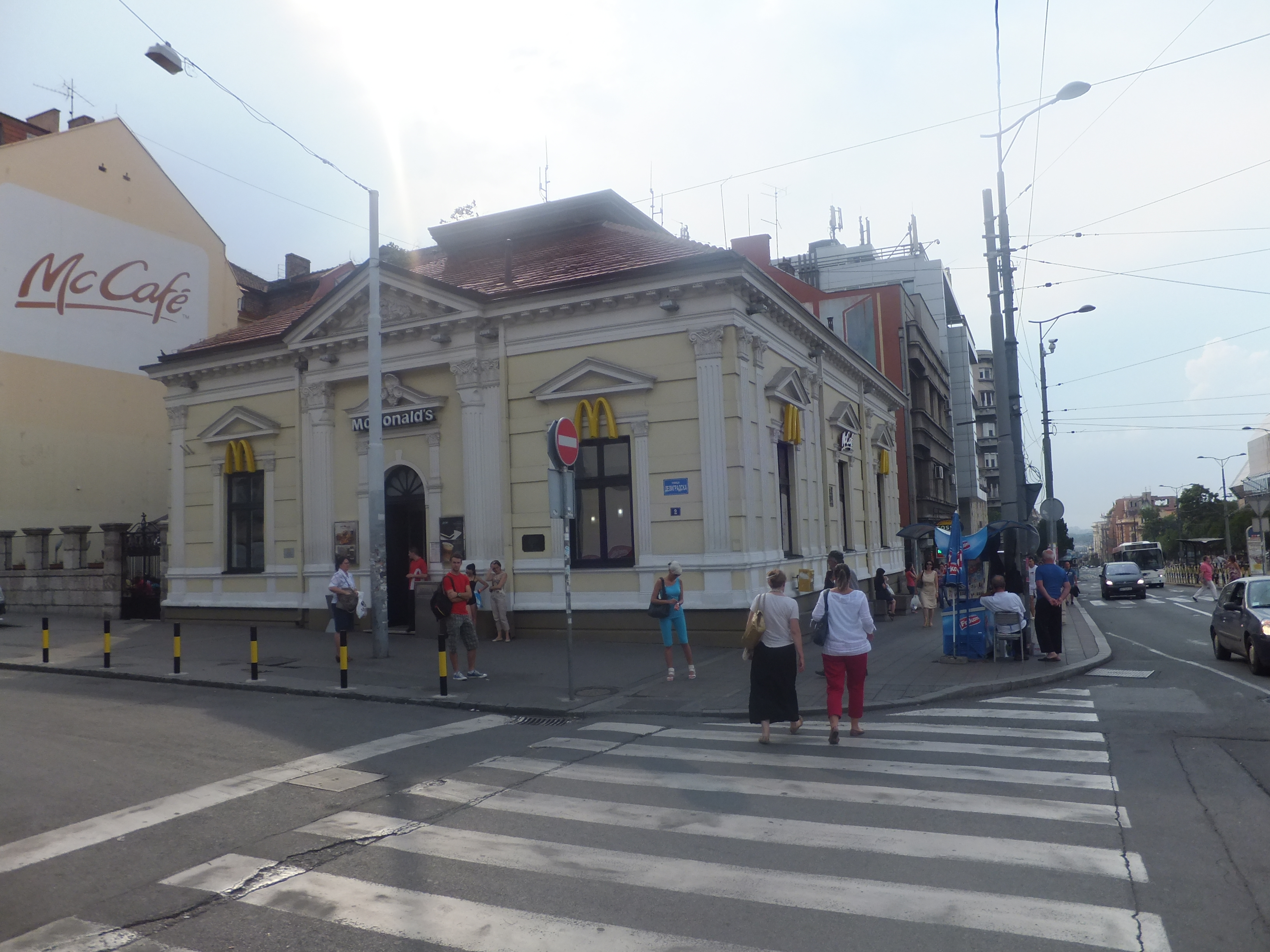 McDonald's building in Slavija Square in Belgrade, Serbia. This is a house of a 19th/20th century Serbian stomatologist Atanasije Puljo